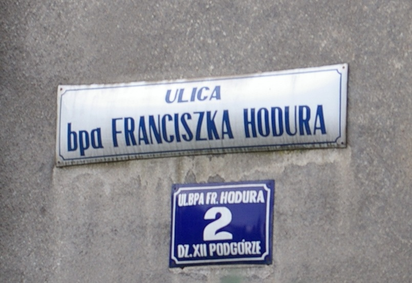 Franciszka Hodura Street in Kraków